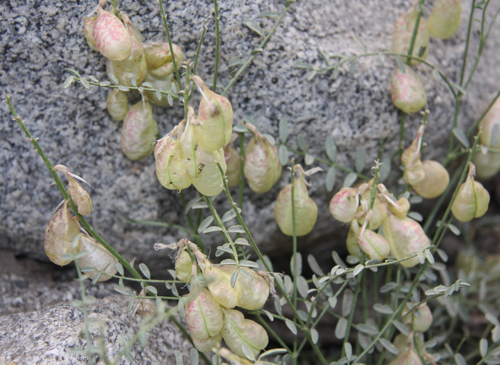 "Balloon" seed pods of Whitney's locoweed (Astragalus whitneyi). McGee Creek trail, John Muir Wilderness.